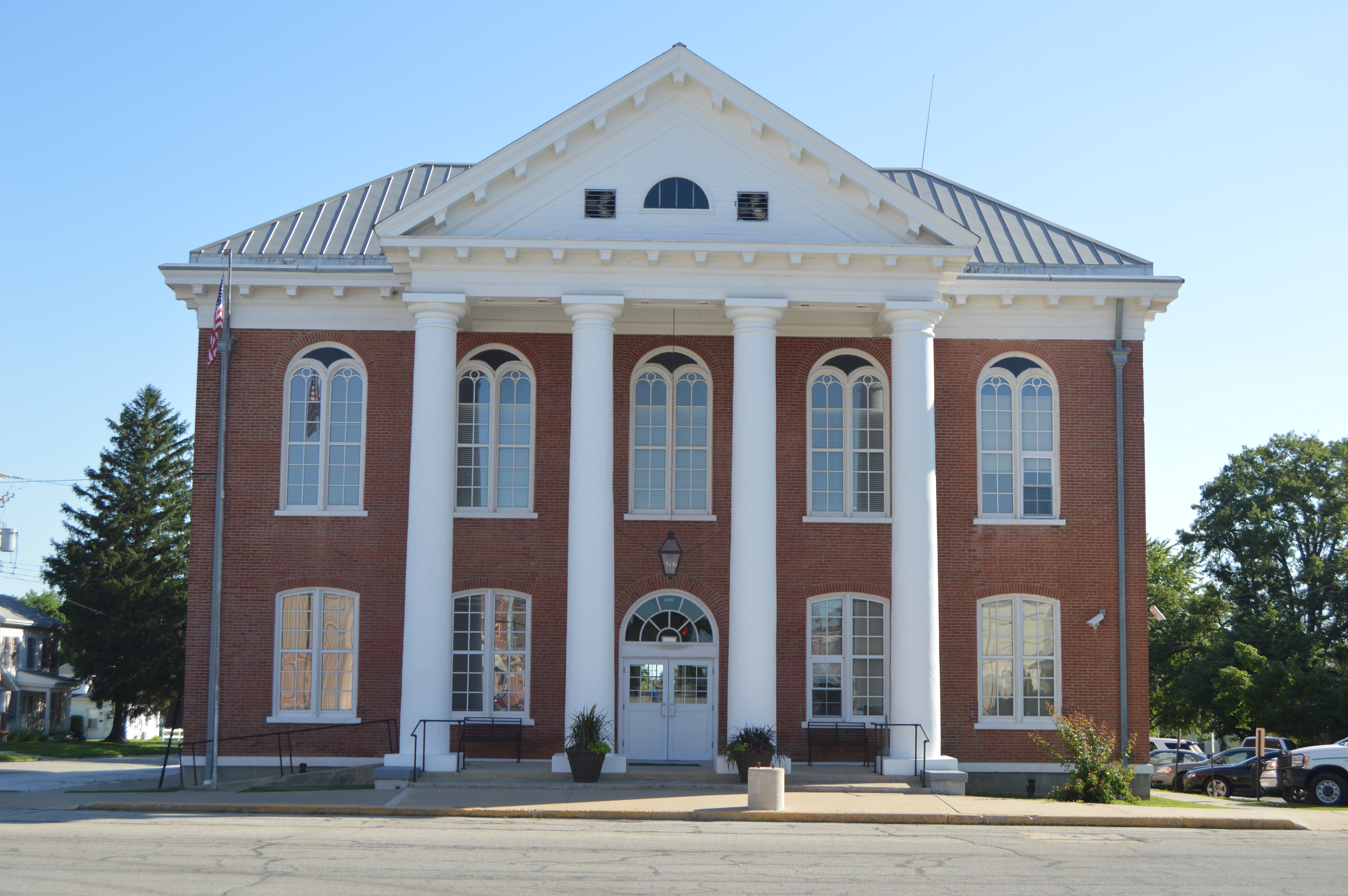 Front of the Brown County Courthouse, located on Courthouse Square in Mount Sterling, Illinois, United States. Built in 1868, it is part of the Mount Sterling Commercial Historic District, a historic district that is listed on the National Register of Historic Places.